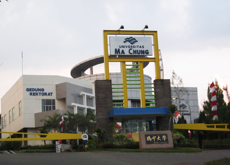 Front Gate of Ma Chung University, Malang, East Java, Indonesia